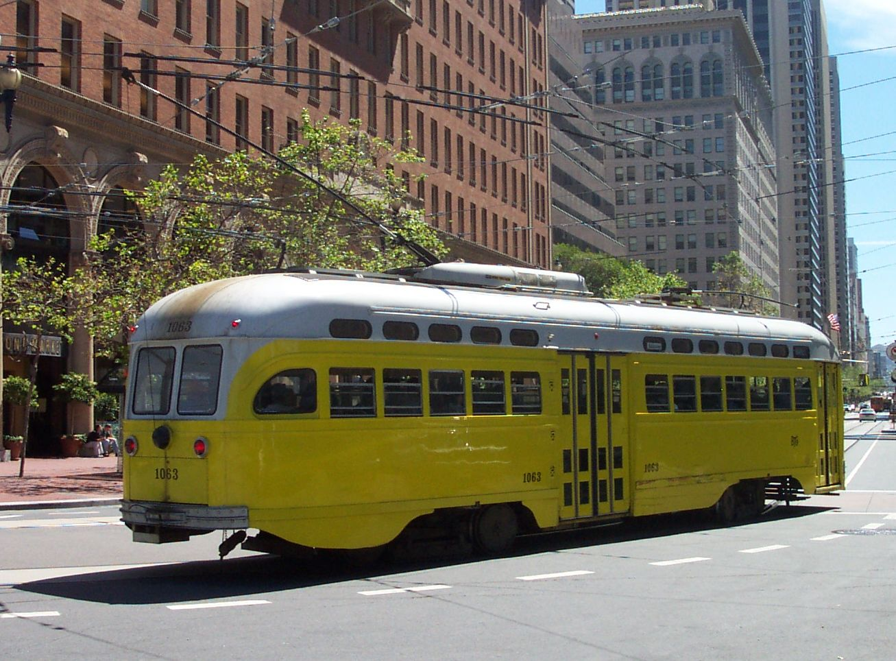 PCC car in San Francisco at the foot of Market Street